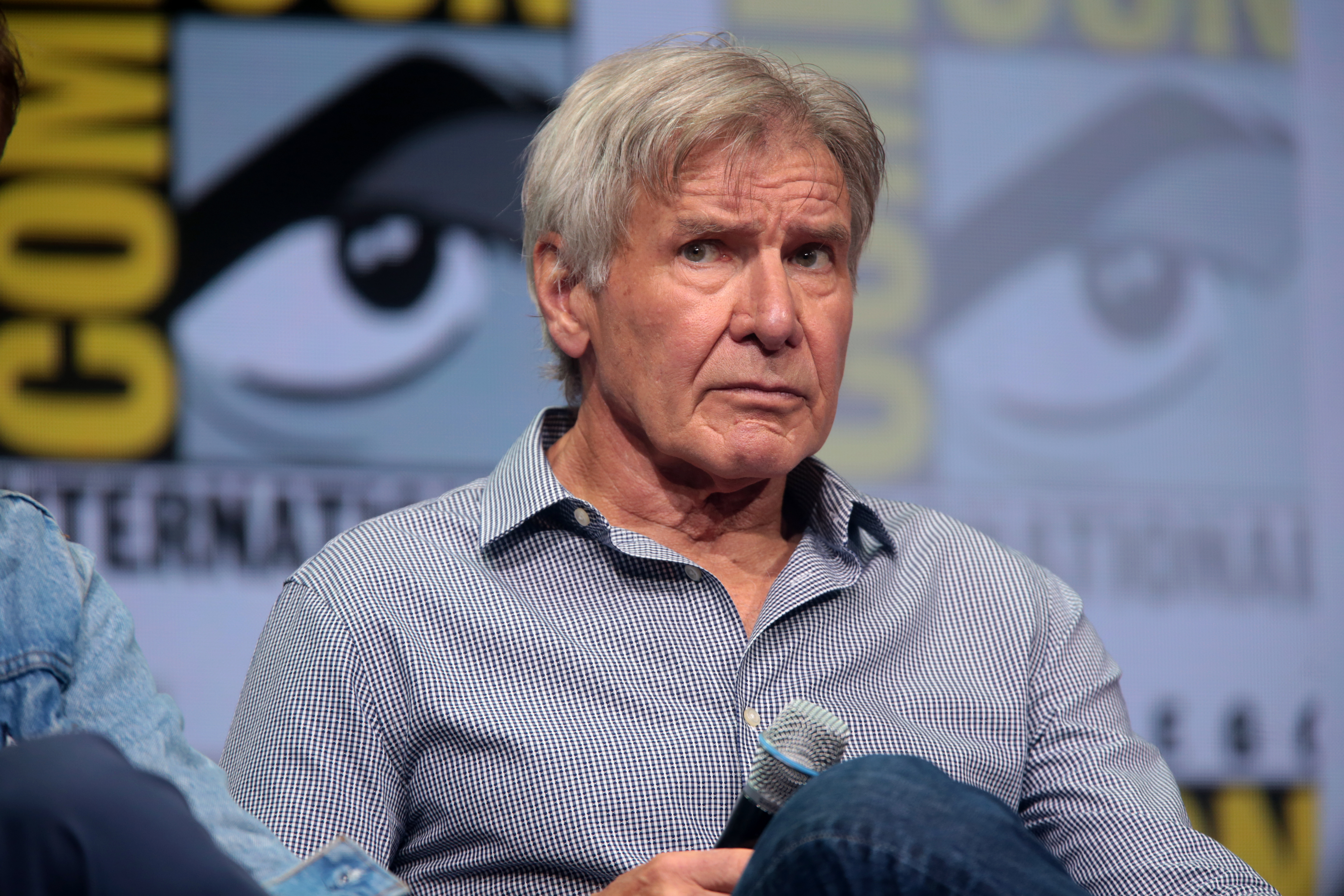 Harrison Ford speaking at the 2017 San Diego Comic Con International, for "Blade Runner 2049", at the San Diego Convention Center in San Diego, California.